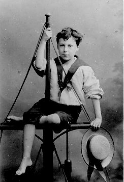 Bertrand Russell as a young boy (childhood picture).